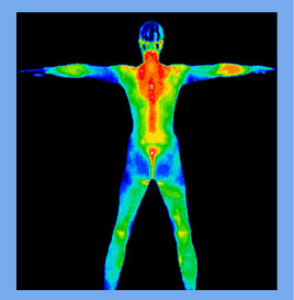 Colors indicate increases or decreases in infrared radiation emitted from the body surface.